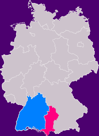 Location of Swabia in Germany.